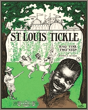 St. Louis Tickle, 1904